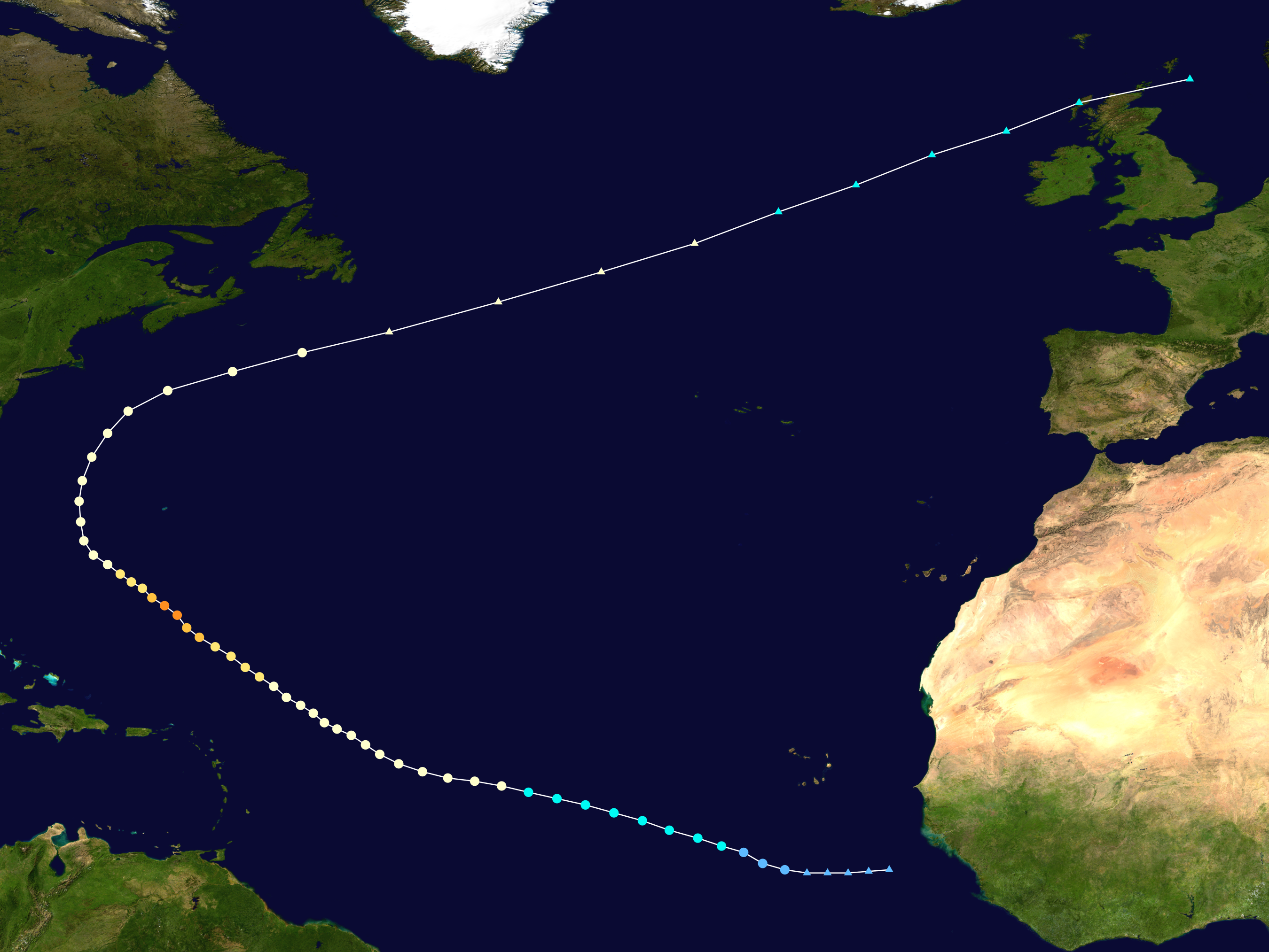 Track map of Hurricane Katia of the 2011 Atlantic hurricane season. The points show the location of the storm at 6-hour intervals. The colour represents the storm's maximum sustained wind speeds as classified in the Saffir–Simpson scale (see below), and the shape of the data points represent the nature of the storm, according to the legend below. Saffir–Simpson scale Tropical depression≤38 mph≤62 km/h Category 3111–129 mph178–208 km/h Tropical storm39–73 mph63–118 km/h Category 4130–156 mph209–251 km/h Category 174–95 mph119–153 km/h Category 5≥157 mph≥252 km/h Category 296–110 mph154–177 km/h Unknown Storm type Tropical cyclone Subtropical cyclone Extratropical cyclone / Remnant low / Tropical disturbance / Monsoon depression